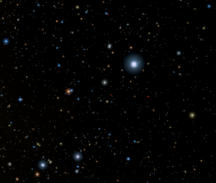 Vega, Alpha Lyrae